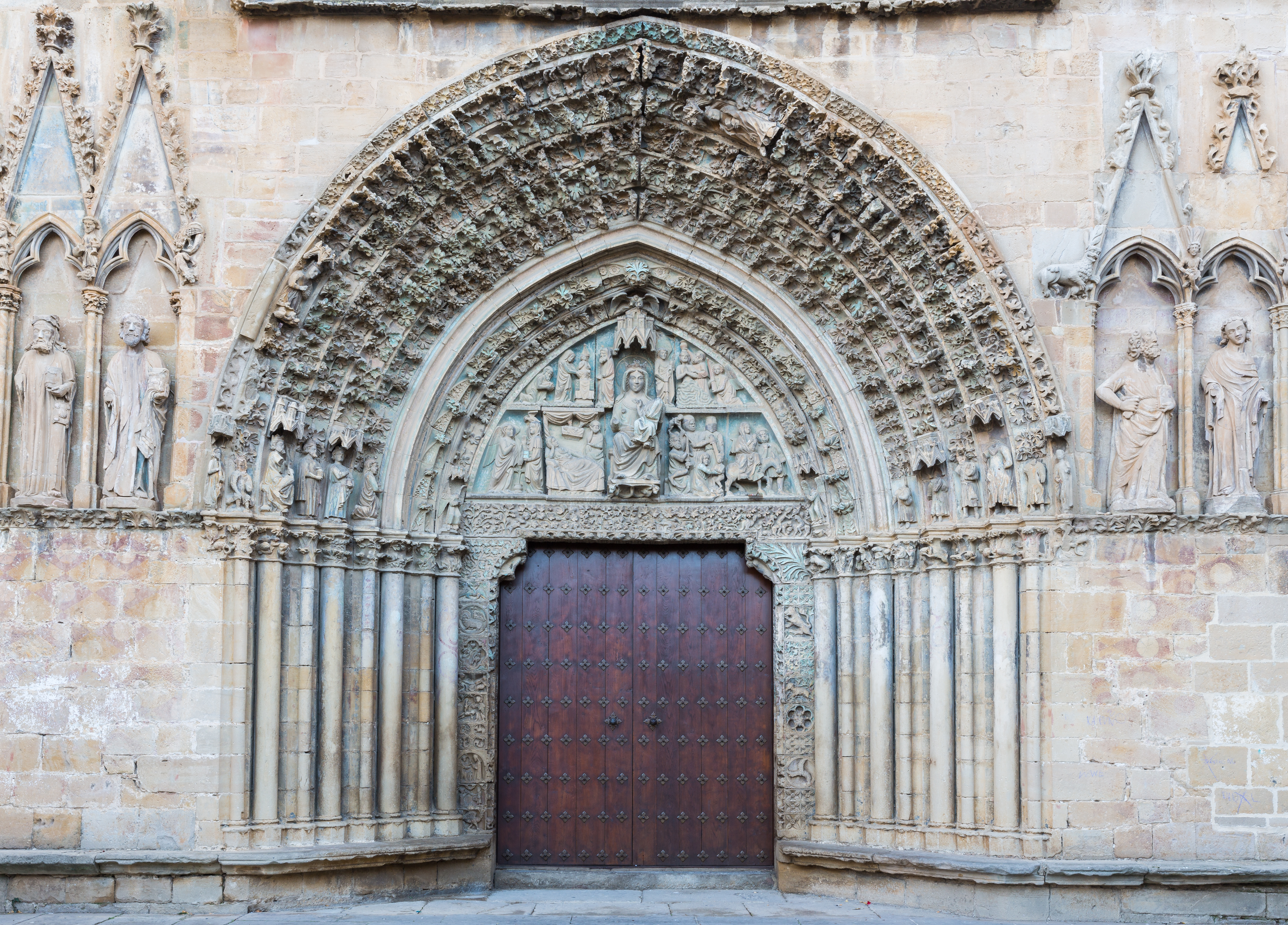 Church of Santa María la Real, Olite, Navarre, Spain